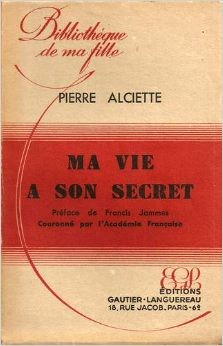 Cover of novel Ma vie a son secret, Pierre Alciette, 1931